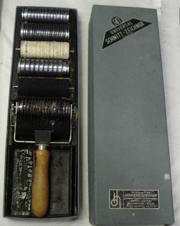 Furrier's tool: Let out roller